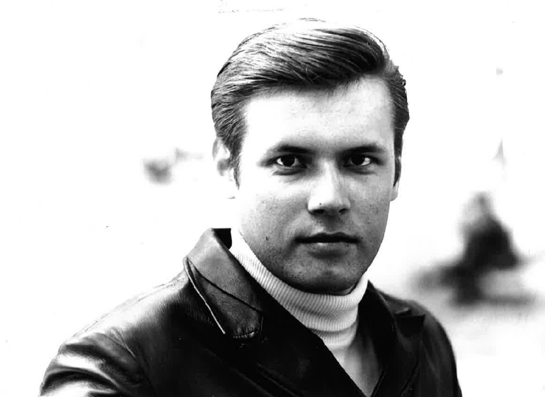 Mauri Härmä